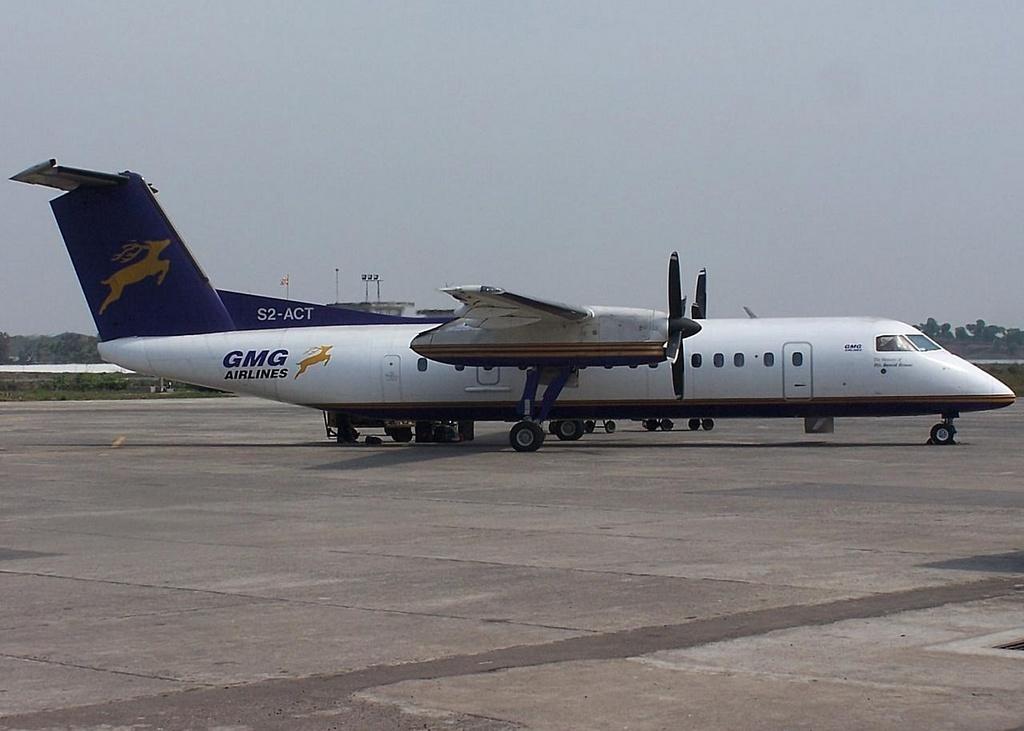 GMG Airlines Bombardier Dash 8-311 S2-ACT at Osmani International Airport